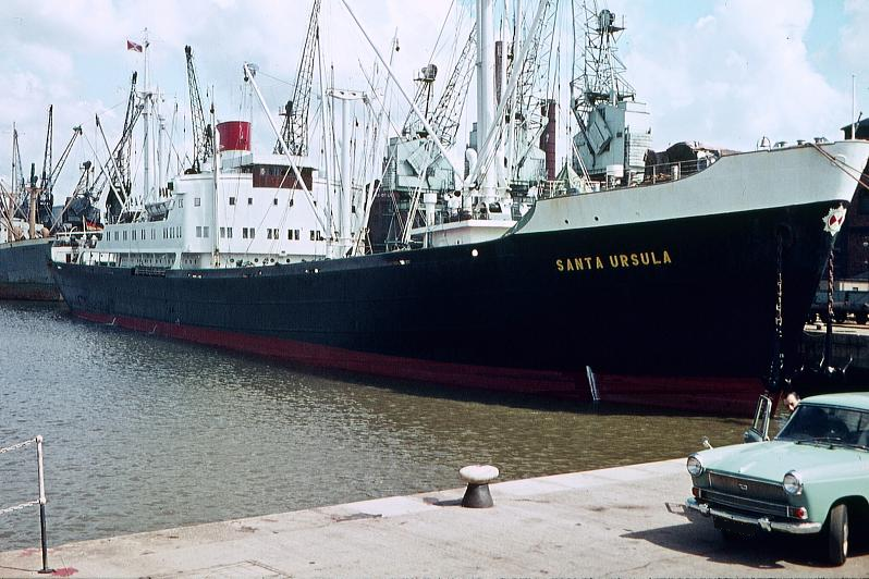 MS Santa Ursula general cargo vessel of the Hamburg-South American Steamship Company (HSDG), Liverpool - 1962